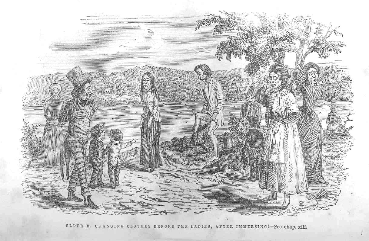 Engraving from William "Parson" Brownlow's book, The Great Iron Wheel Examined, showing a Baptist preacher changing clothes in front of several shocked and disgusted women after performing a Baptism. Brownlow was attacking the Baptists' "immersion" method of Baptism, which involves entering a stream and submerging the convert, as opposed to the Methodist method of sprinkling water over the head.